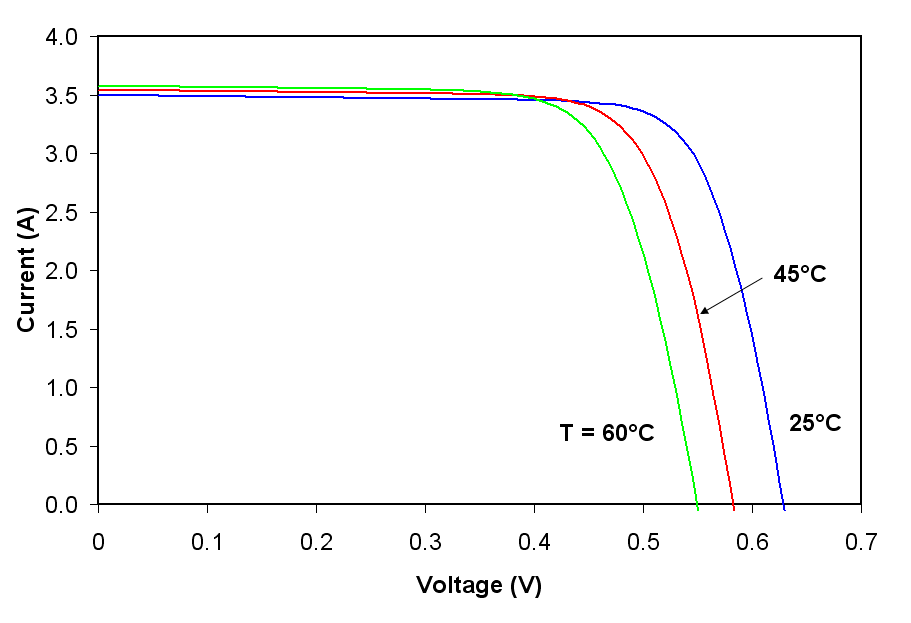 Solar cell I-V curve as a function of temperature.